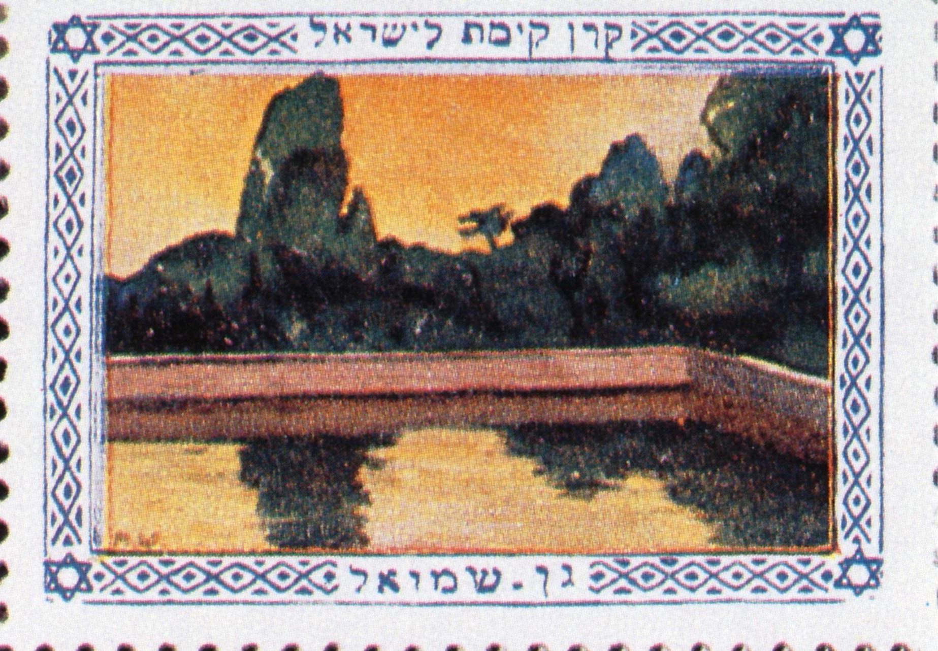 Gan-Shmuel zk19- 17, Settlements in Israel